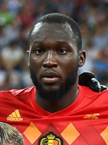 Lukaku during the start of the Japan v Belgium Round of 16 match